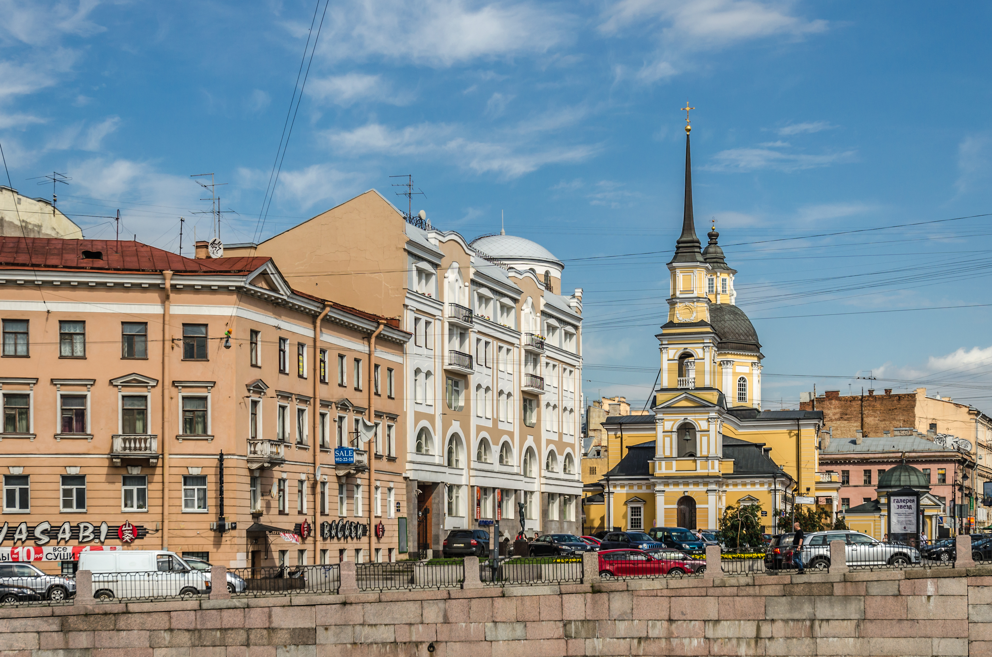 Fontanka river embankment, church of Simeon and Anna, Saint Petersburg